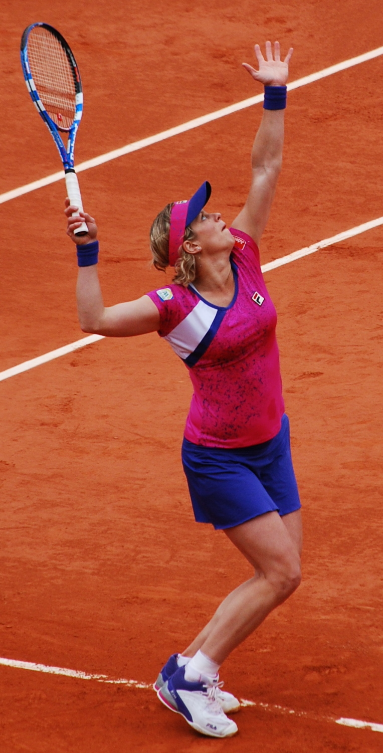 Clijsters serving against Rus in the 2nd round of the 2011 French Open